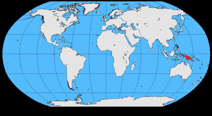 Map showing the distribution of Grey Crow (Corvus tristis) species.